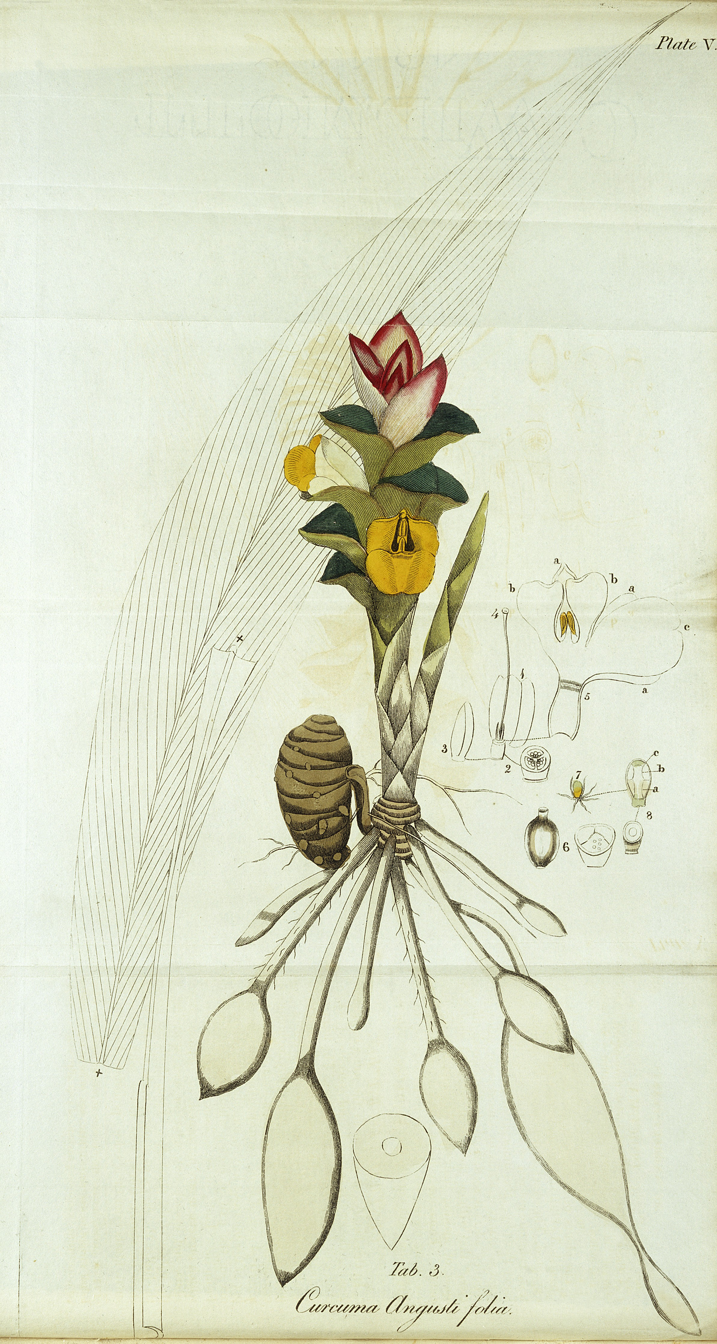 Curcuma angustifolia Roxb. Rare Books Keywords: phrynuim capitatum Curcuma Angusti folia ; India; epb/22713/b; medicinal plants